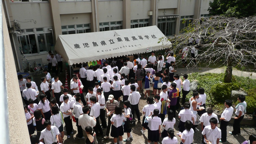 Kanoya High School - Sanseisai (Cultural Festival Kanoya City, Kagoshima, Japan)